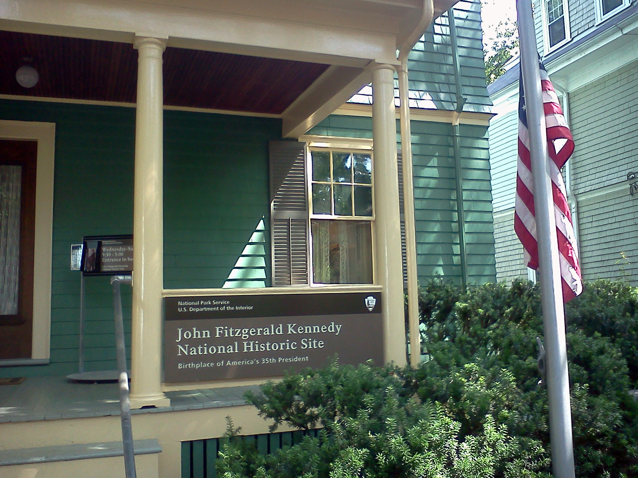 John Fitzgerald Kennedy National Historic Site in Brookline, Massachusetts